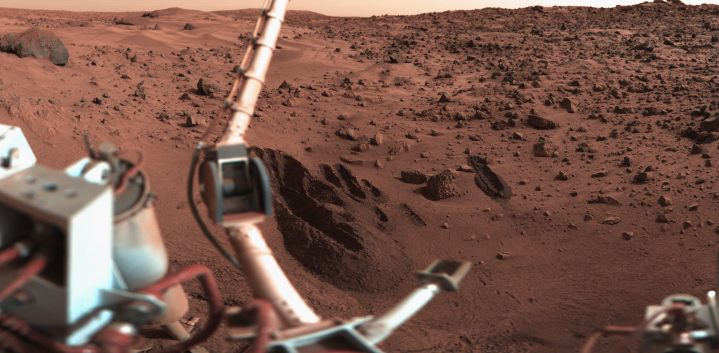 Original Caption Released with NASA image: The Viking 1 Lander sampling arm created a number of deep trenches as part of the surface composition and biology experiments on Mars. The digging tool on the sampling arm (at lower center) could scoop up samples of material and deposit them into the appropriate experiment. Some holes were dug deeper to study soil which was not affected by solar radiation and weathering. The trenches in this ESE looking image are in the "Sandy Flats" area of the landing site at Chryse Planitia. The boom holding the meteorology sensors is at left. More information can be found at Viking Lander Image 11D128.BLU, Viking Lander Image 11D128.GRN and Viking Lander Image 11D128.RED.